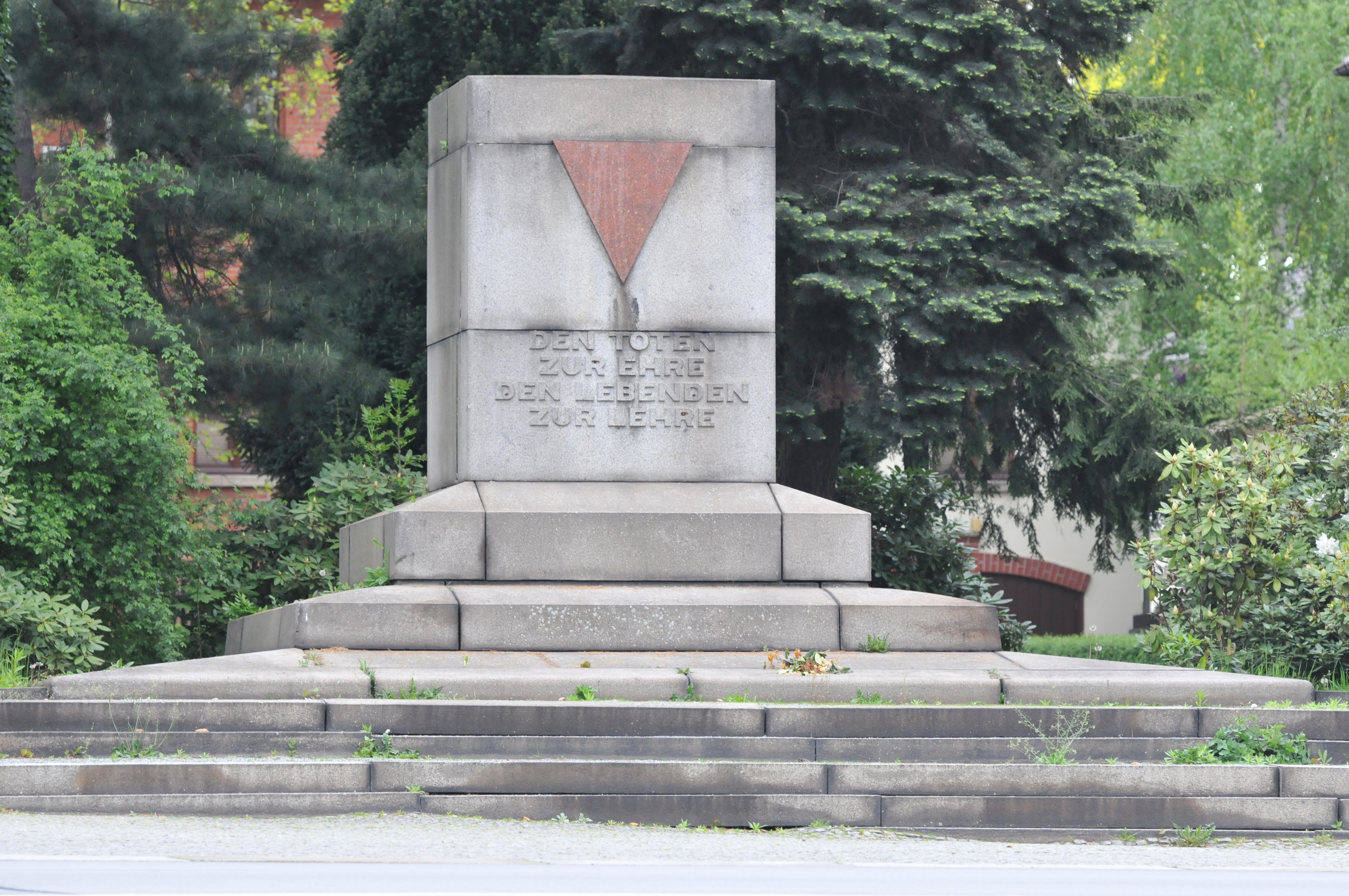 Inner city of Zittau, Saxony, Germany. Wikipedians in Seifhennersdorf This photo was taken during the project Wikipedians in Seifhennersdorf in May 2014. Supported by Wikimedia Deutschland, Wikimedia Österreich, Wikimedia Polska and Wikimedia Czech Republic. The making of this work was supported by Wikimedia Austria. For other files made with the support of Wikimedia Austria, please see the category Supported by Wikimedia Österreich.